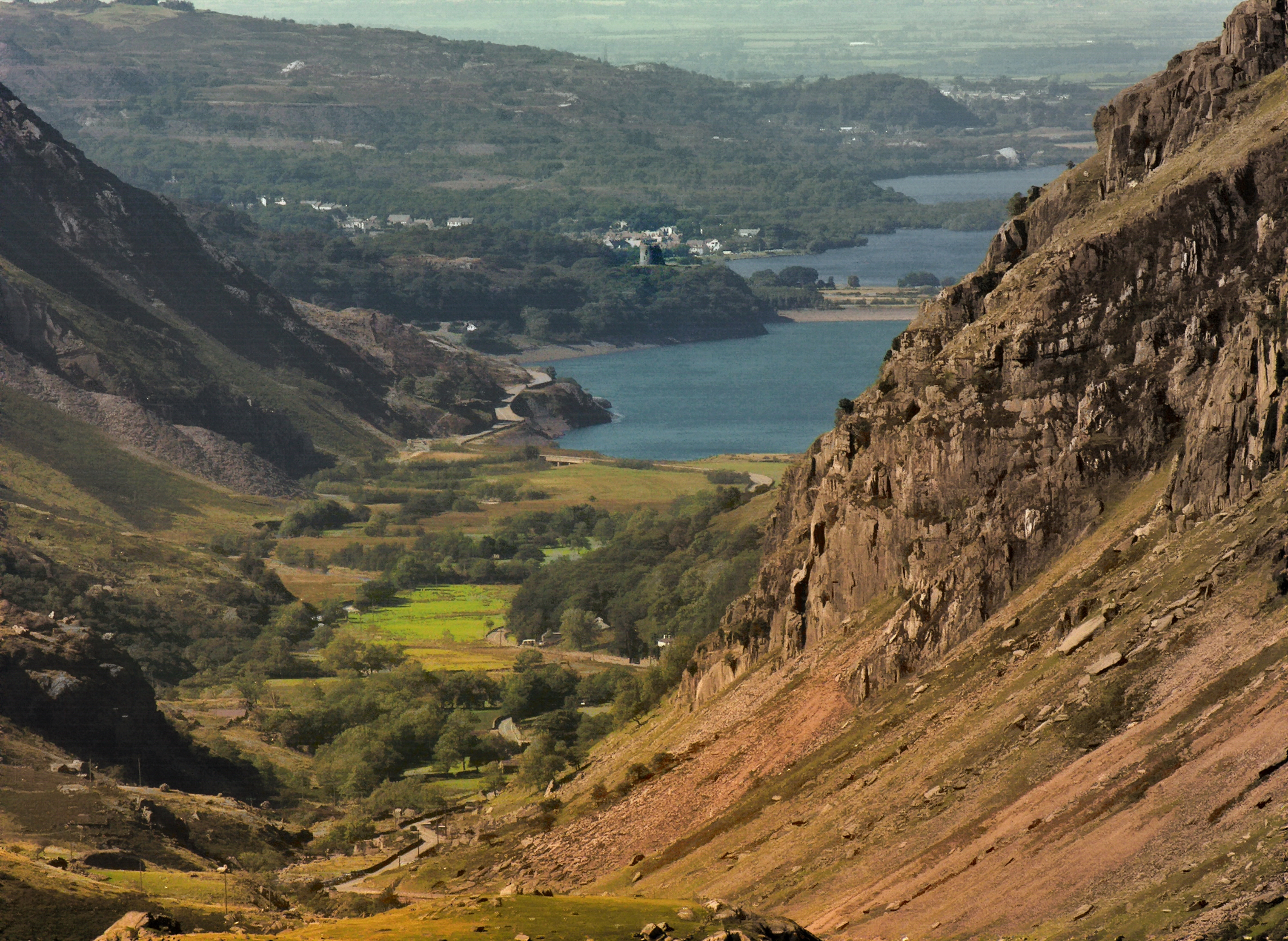 Looking down the Llanberis Pass from the PYG track showing Llyn Peris and Llyn Padarn.